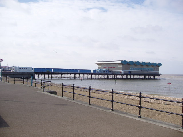 The landward end of the pier in Herne Bay, Kent